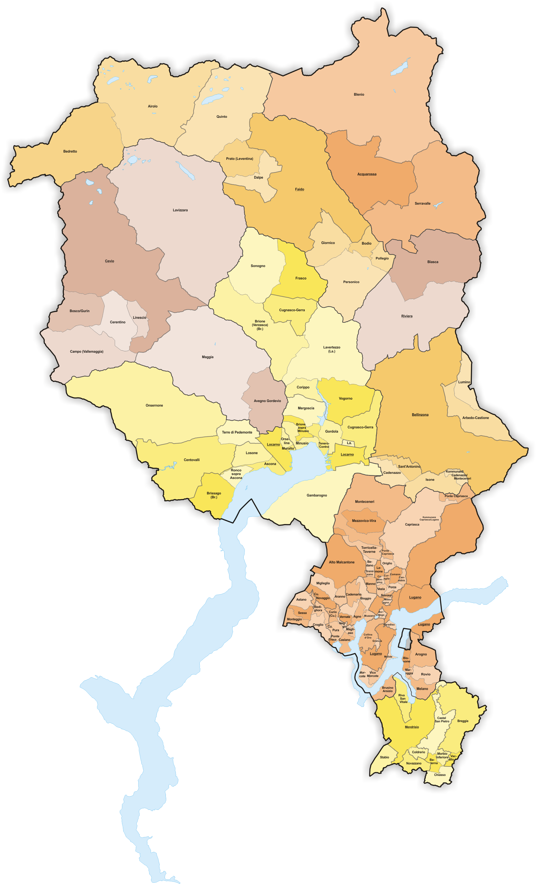 Municipalities in Canton Tessin